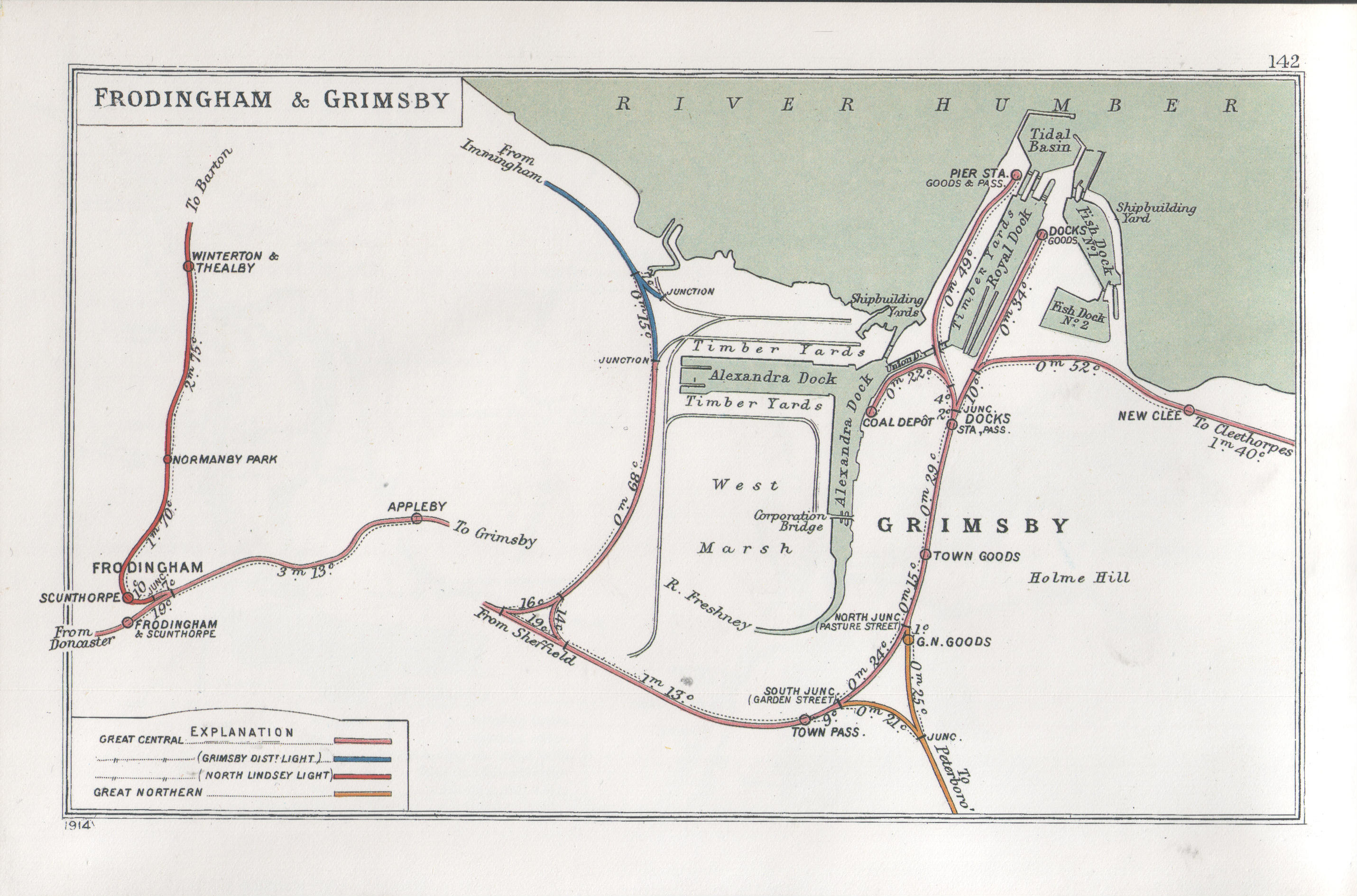 Railway junction diagrams for Frodingham & Grimsby